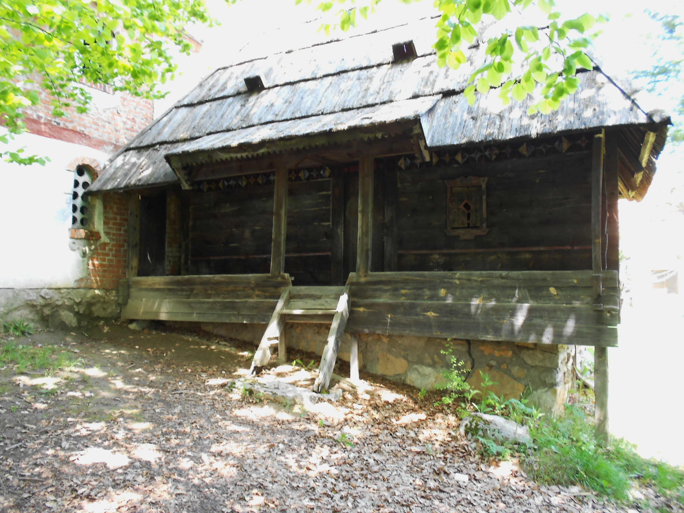 Atelier of famous Serbian painter and architect, Milić Stanković, also known as Milić od Mačve. The atelier is located at Zlatibor mountains.